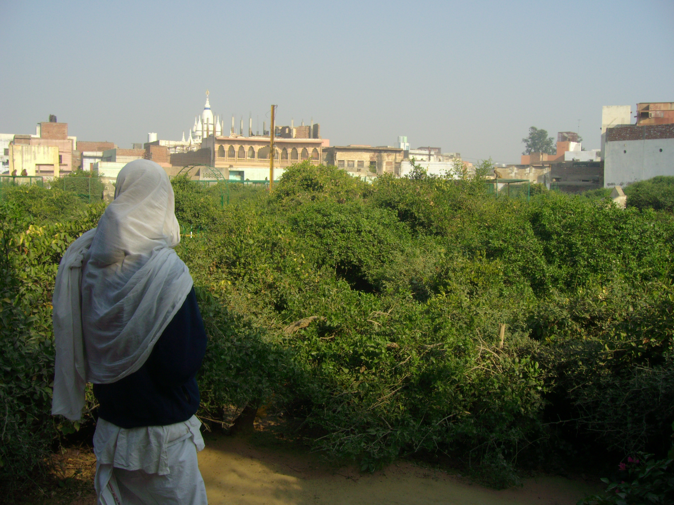 Sevakunja in Vrindavan